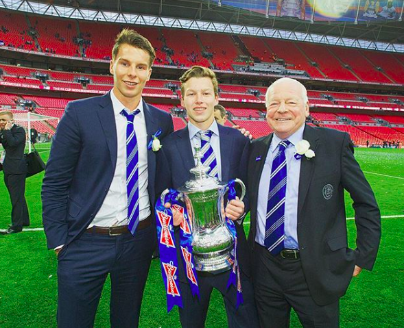 David Sharpe, current Wigan Athletic Chairman, Paul Sharpe, David Whelan, previous Wigan Athletic Chairman with FA Cup after Wigan beat Manchester City 1-0 to be announced the FA cup 2013 winners.